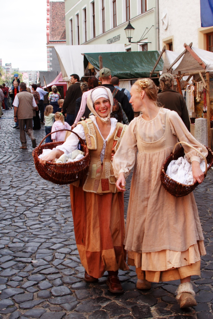 Showmen and visitors at the Görlitzer Altstadtfest